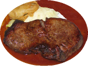 Steack Chateaubriand